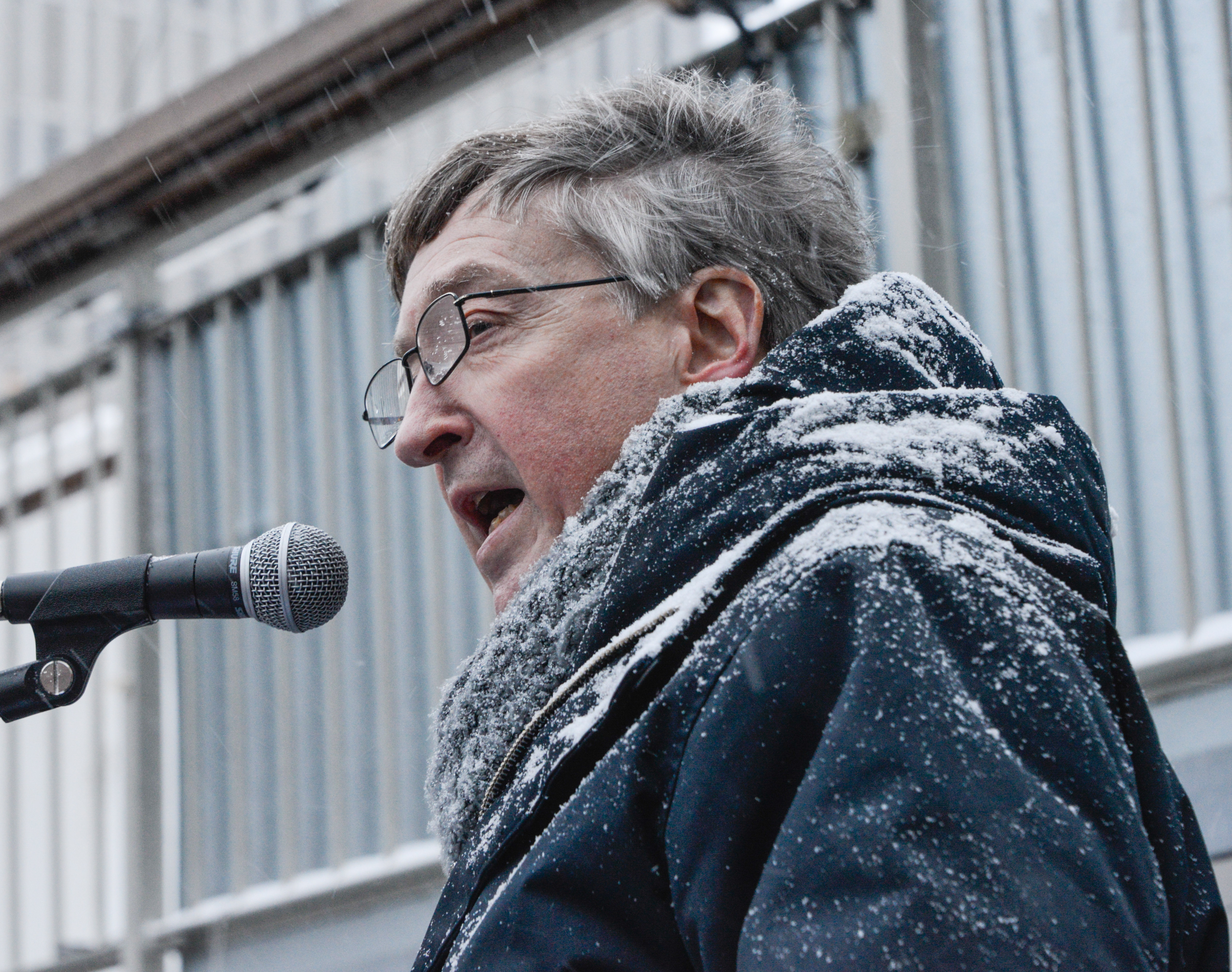 Stockholm rally in support of the victims of the 2015 Charlie Hebdo shooting.